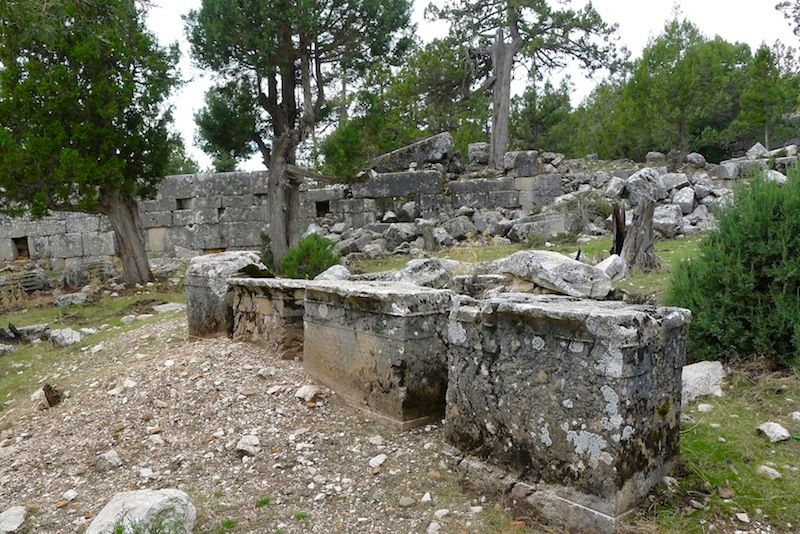 Oinoanda, Inscriptions of Diogenes